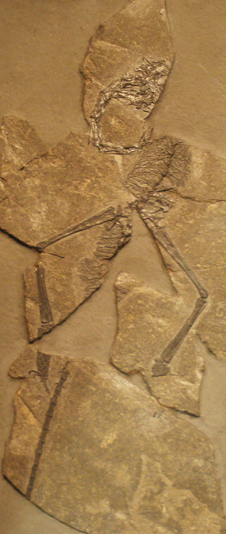 Fossil of Langobardisaurus pandolfii, an extinct reptile